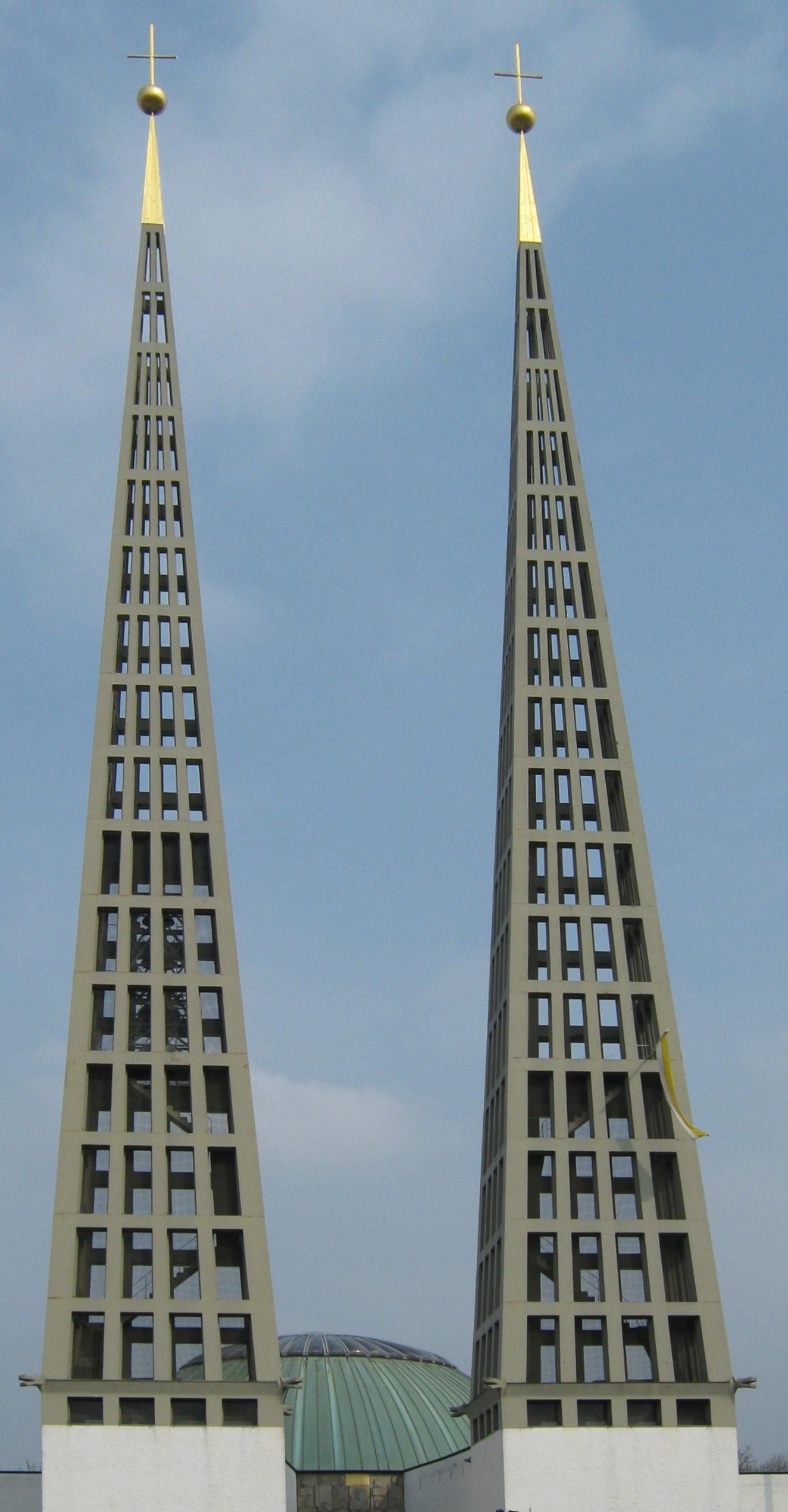 Don Bosco Church in Augsburg, Germany, viewed from West, designed by Thomas Wechs